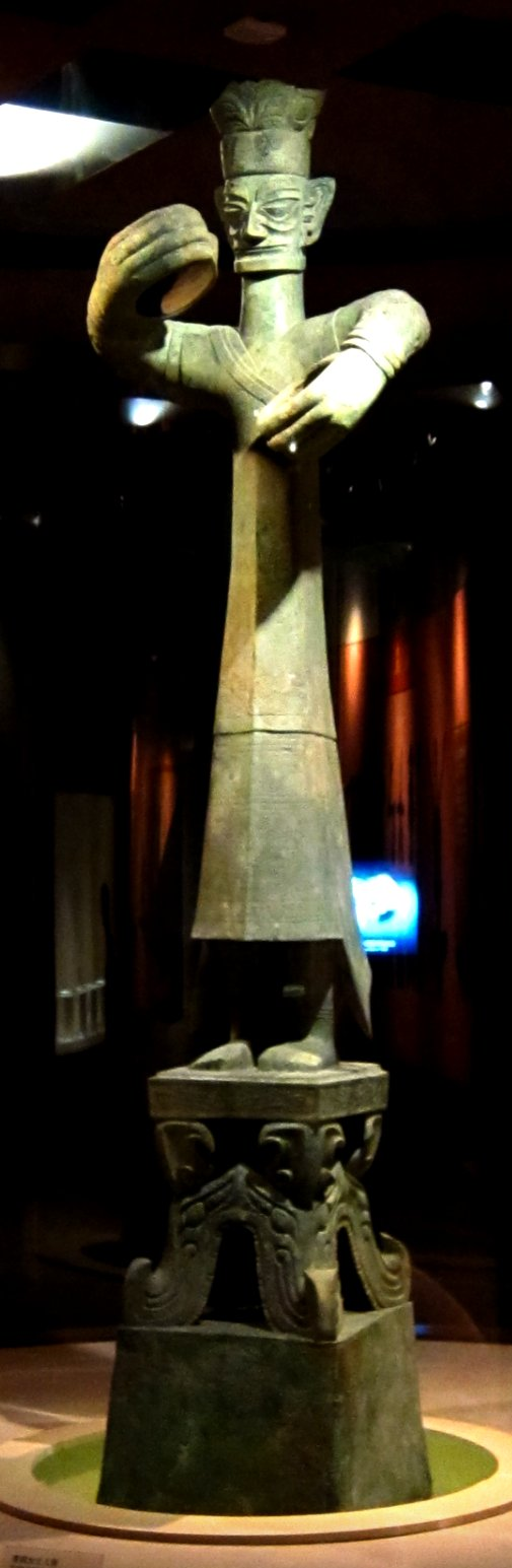 The figure is hollow inside with a total height of 2.62 m and the height of the human part measures 1.72 m. The figure wore three layers of clothing with a ribbon, and bracelets on both hands and feet. It is generally believed that this figure was a king and shaman leader, that is, the highest authority assumed the triple status of god, shaman and king. The figure has oversize hands and was clearly intended to hold some large object, now lost. Possibilities include a jade cong or an elephant tusk, both found in the pits.